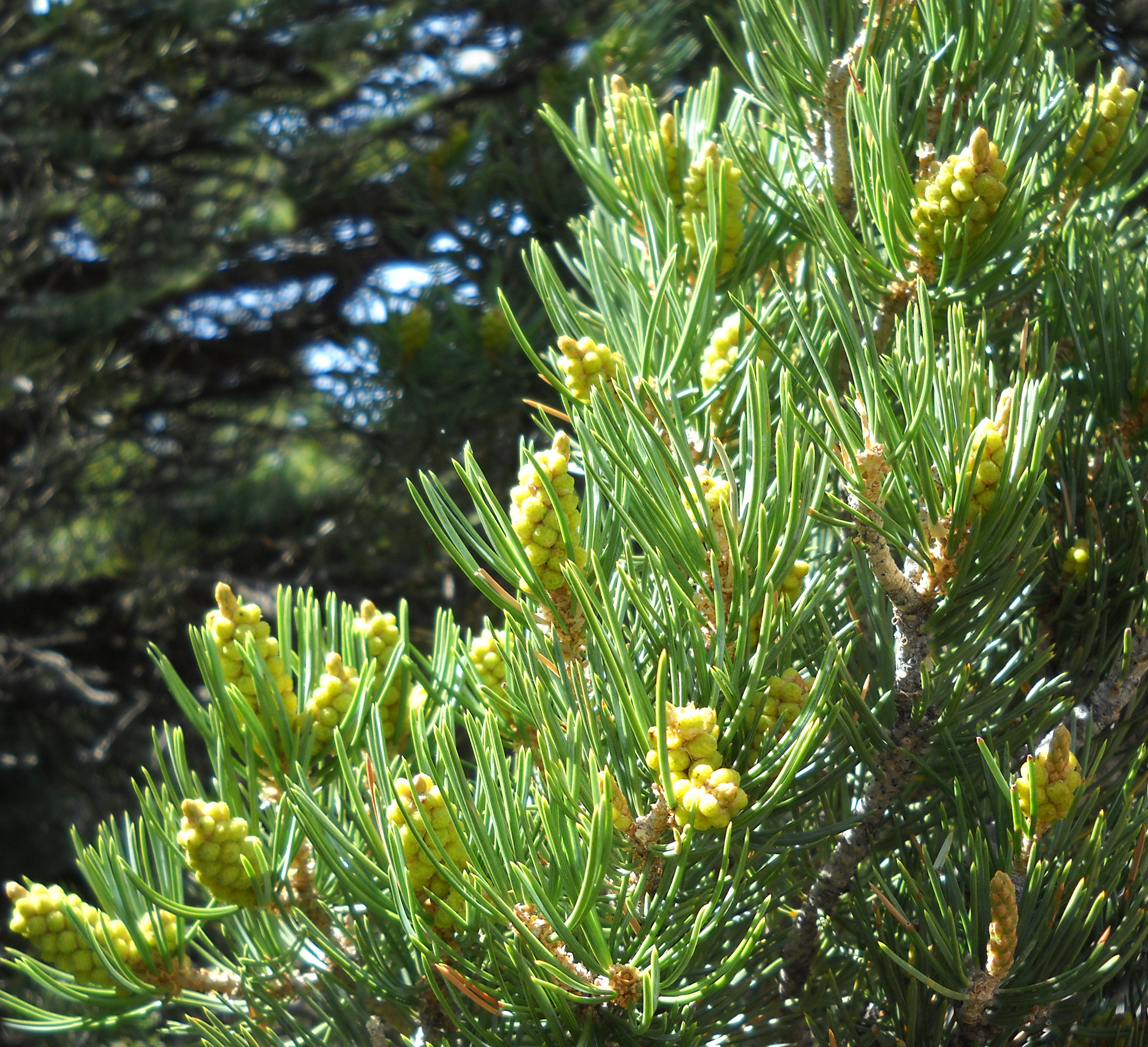 Pinus edulis foliage and pollen cones. Cape Royal, Grand Canyon North Rim, Arizona.